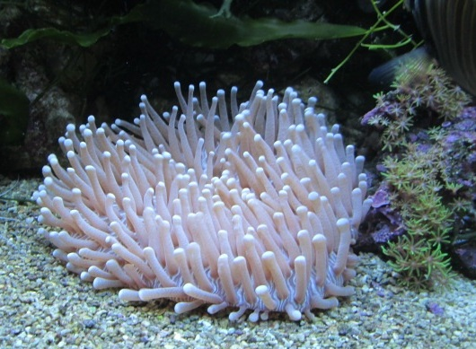 Heliofungia actiniformis in reef aquarium